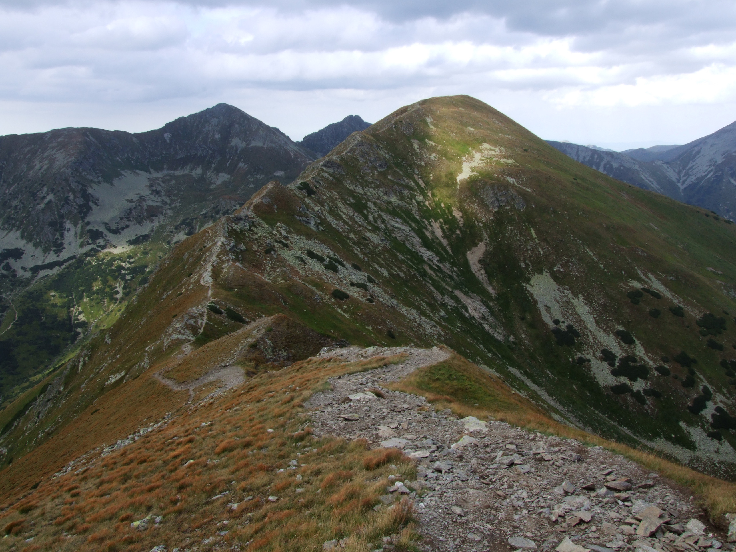 Smrek, Rohacze (West Tatra Mountains)